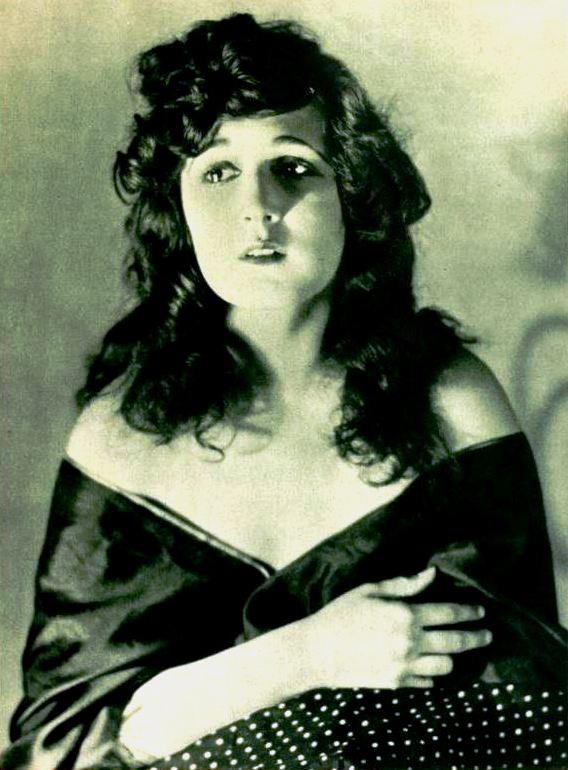 Actress Marion Aye (listed in caption as Maryon Aye), on page 13 of the April 1922 Photoplay.